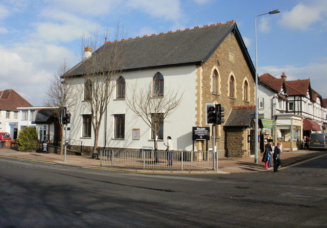 Beulah United Reformed Church, Rhiwbina, Cardiff Located on the corner of Heol-y-Deri and Beulah Road. Beulah church has been at this crossroads in Rhiwbina since 1851. The original church was on the other corner of Beulah Road, on the site of the recently redeveloped Canolfan Beulah . The present building dates from 1890.